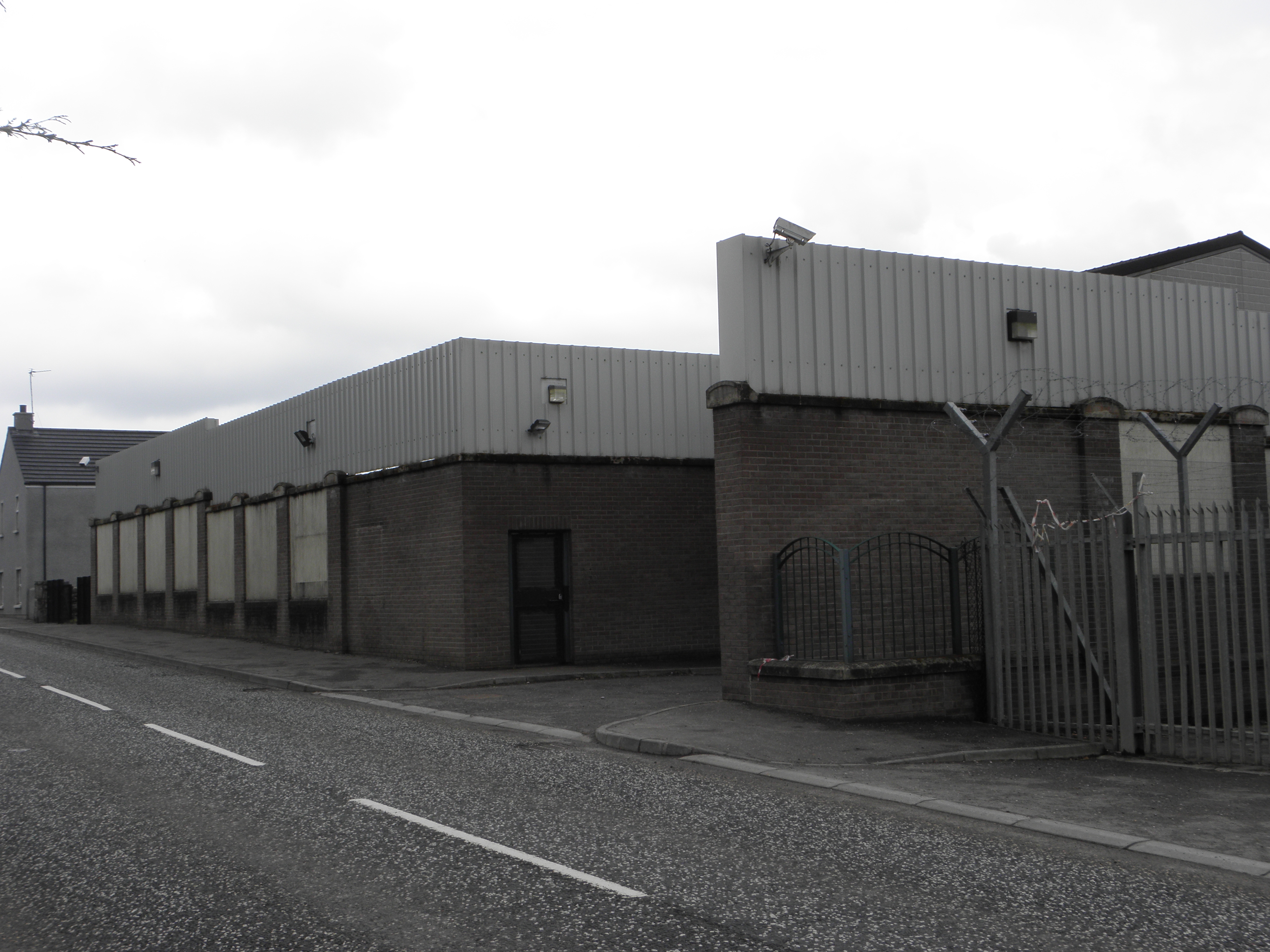 Former Loughgall police station, now closed (2010)